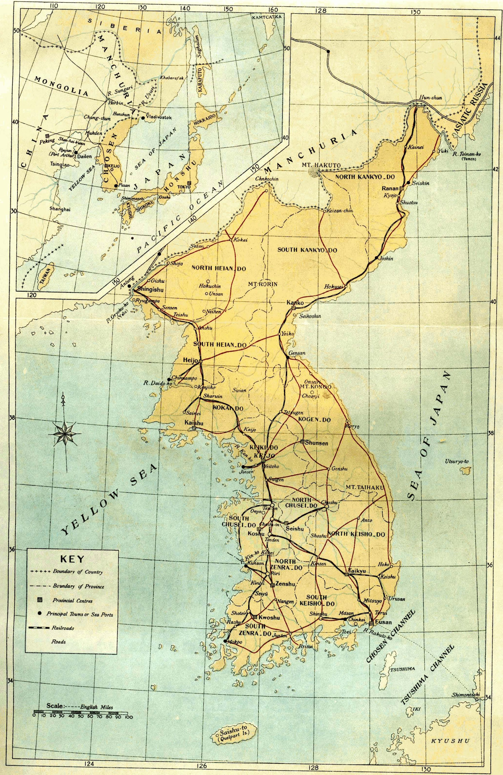 Old map of Korean peninsula with Japanese names.